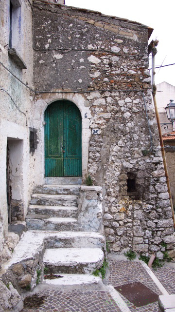 Picture of the village of Preston medieval